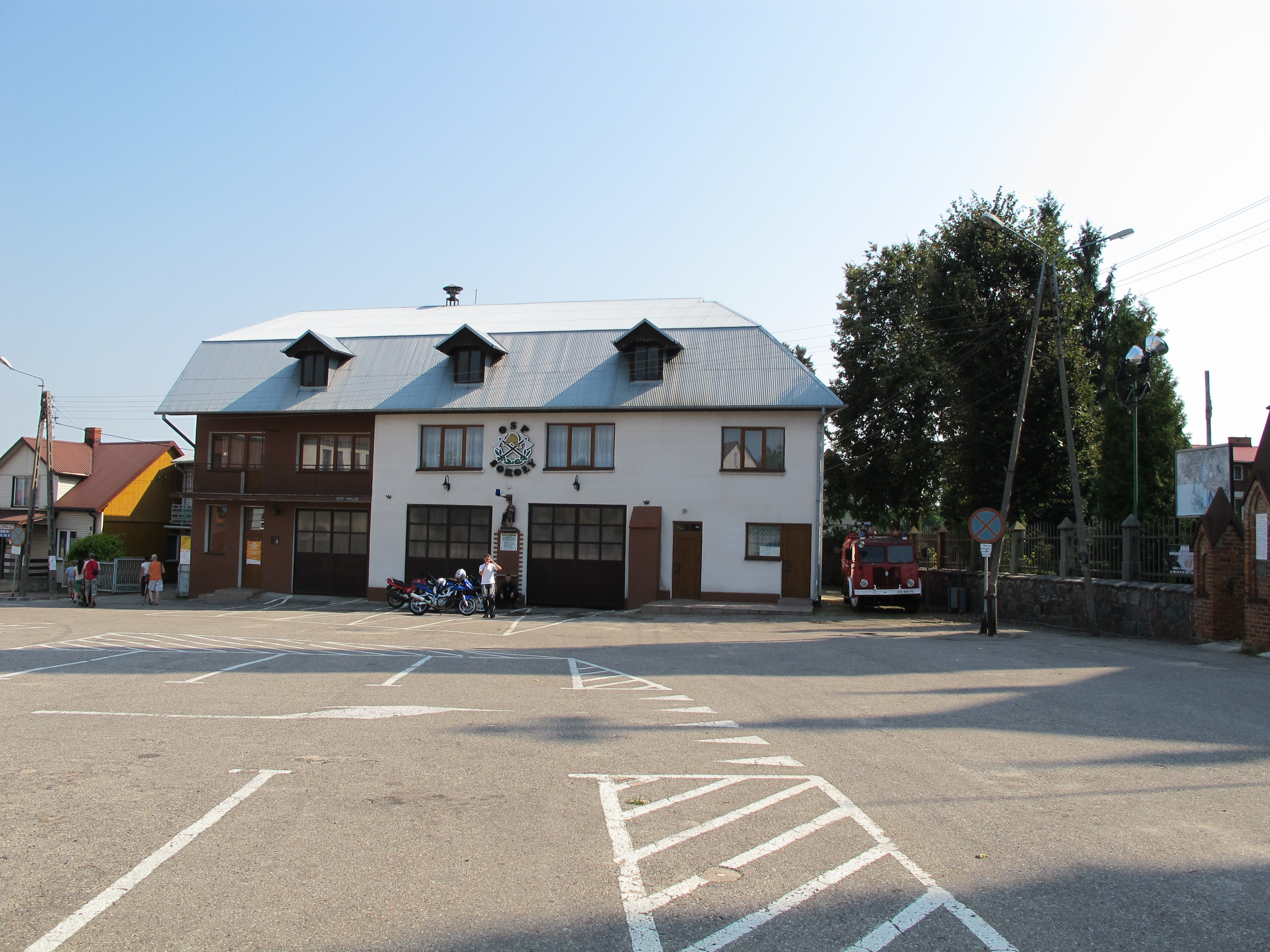 Volunteer Fire Department by Mickiewicza 8 street in Sokoły village, gmina Sokoły, podlaskie, Poland